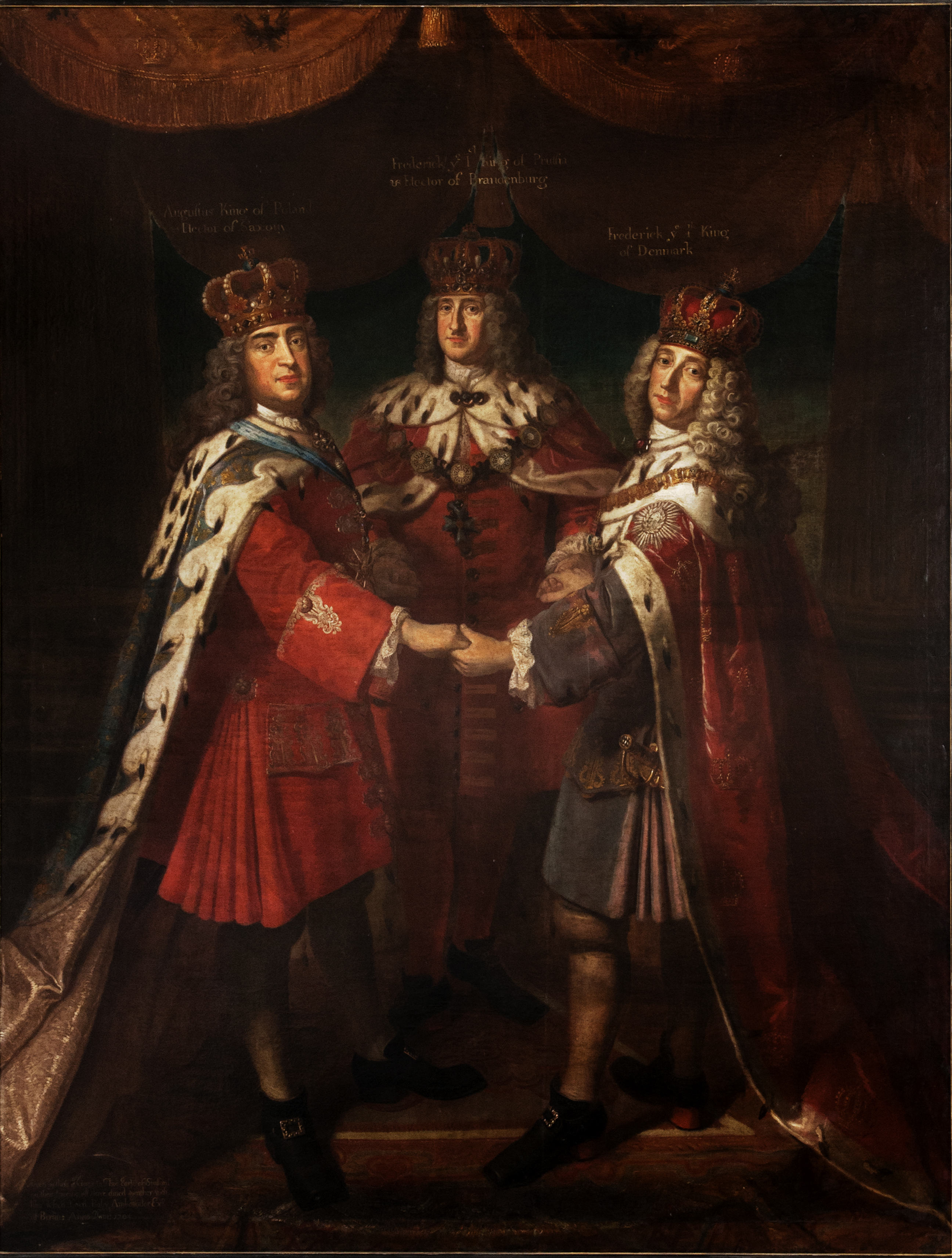 Meeting of three kings in Potsdam, Caputh and Berlin, 1709. Frederick I. in Prussia (center)-- August II. (the Strong), King of Poland and Elector of Saxony (left)-- Frederick IV of Denmark (right)